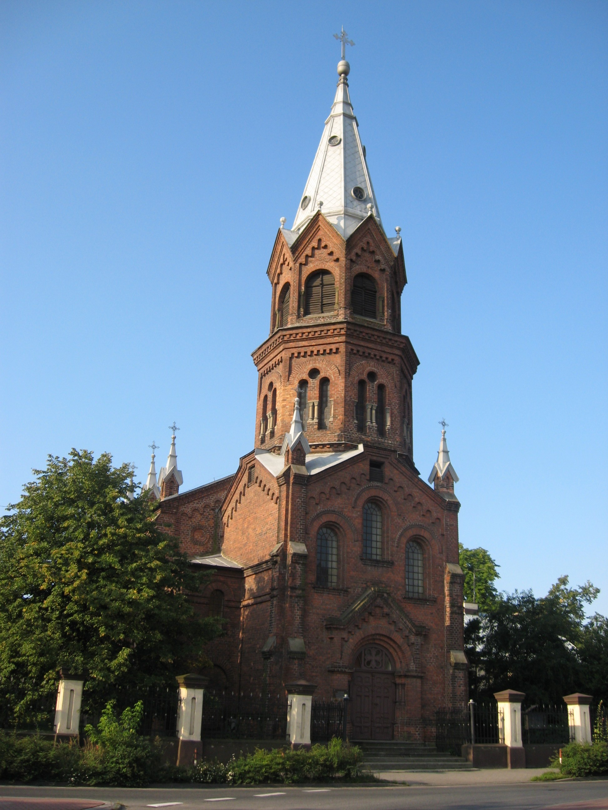 Konin - Lutheran church of Holy Spirit